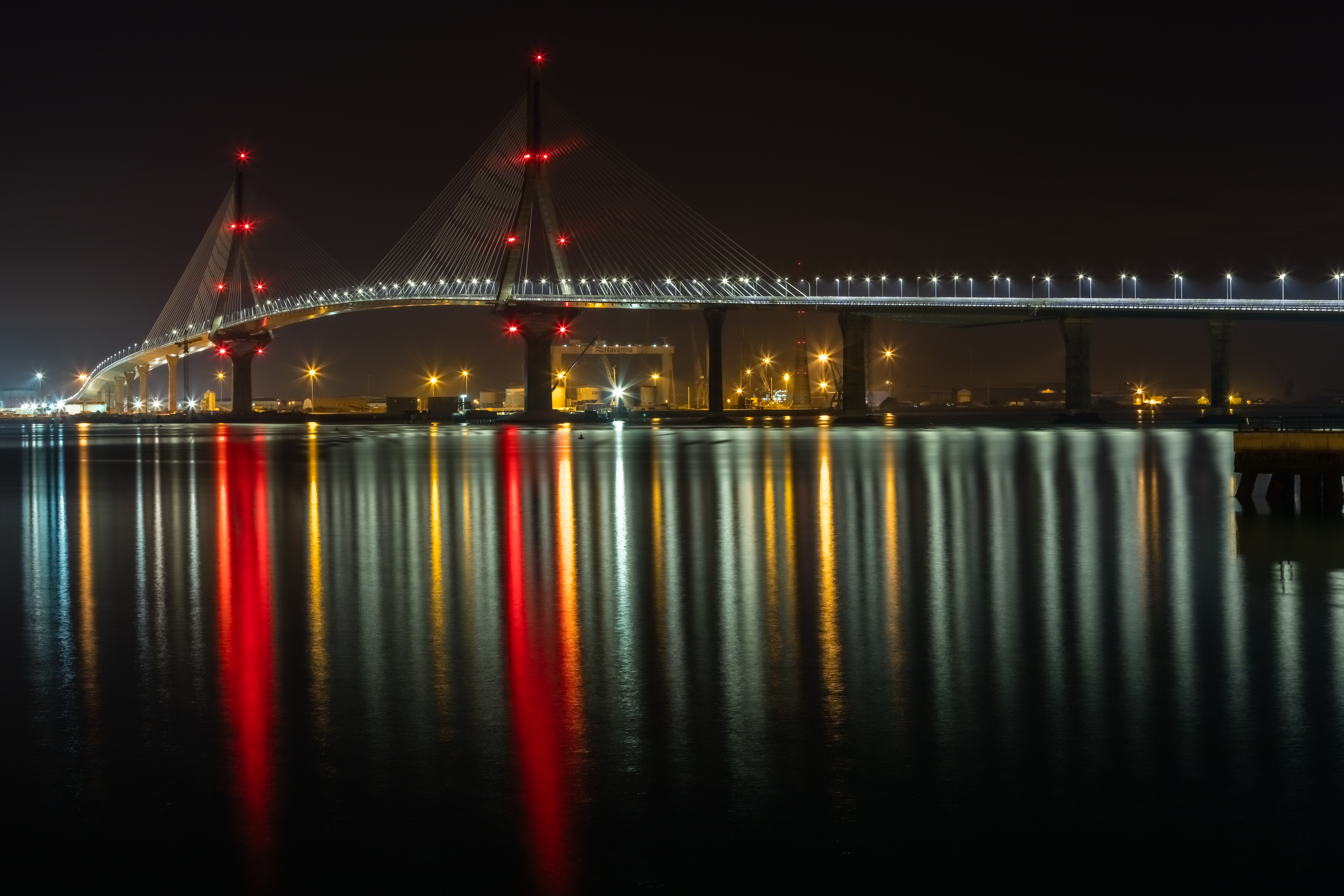 The 1812 Constitution Bridge, commonly known as "La Pepa Bridge" is a cable-stayed bridge that spans the Bay of Cádiz connecting the city of Cádiz with the Iberian Peninsula, Andalusia, Spain. The bridge, constructed between 2008 and september 2015, is 34.3 metres (113 ft) wide to host 2 lanes in each direction and 3,092 metres (10,144 ft) long, being the longest span 540 metres (1,770 ft). It has the second highest height for maritime traffic in the world (69 metres (226 ft)) after the Verrazano–Narrows Bridge in New York, USA.